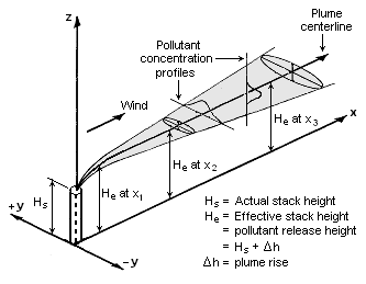 I am the author and I drew this diagram using Microsoft's Paint program. The diagram is a visualization of a Gaussian air pollutant dispersion plume and will be used in the Atmospheric dispersion modeling article. - mbeychok 06:35, 24 August 2007 (UTC)